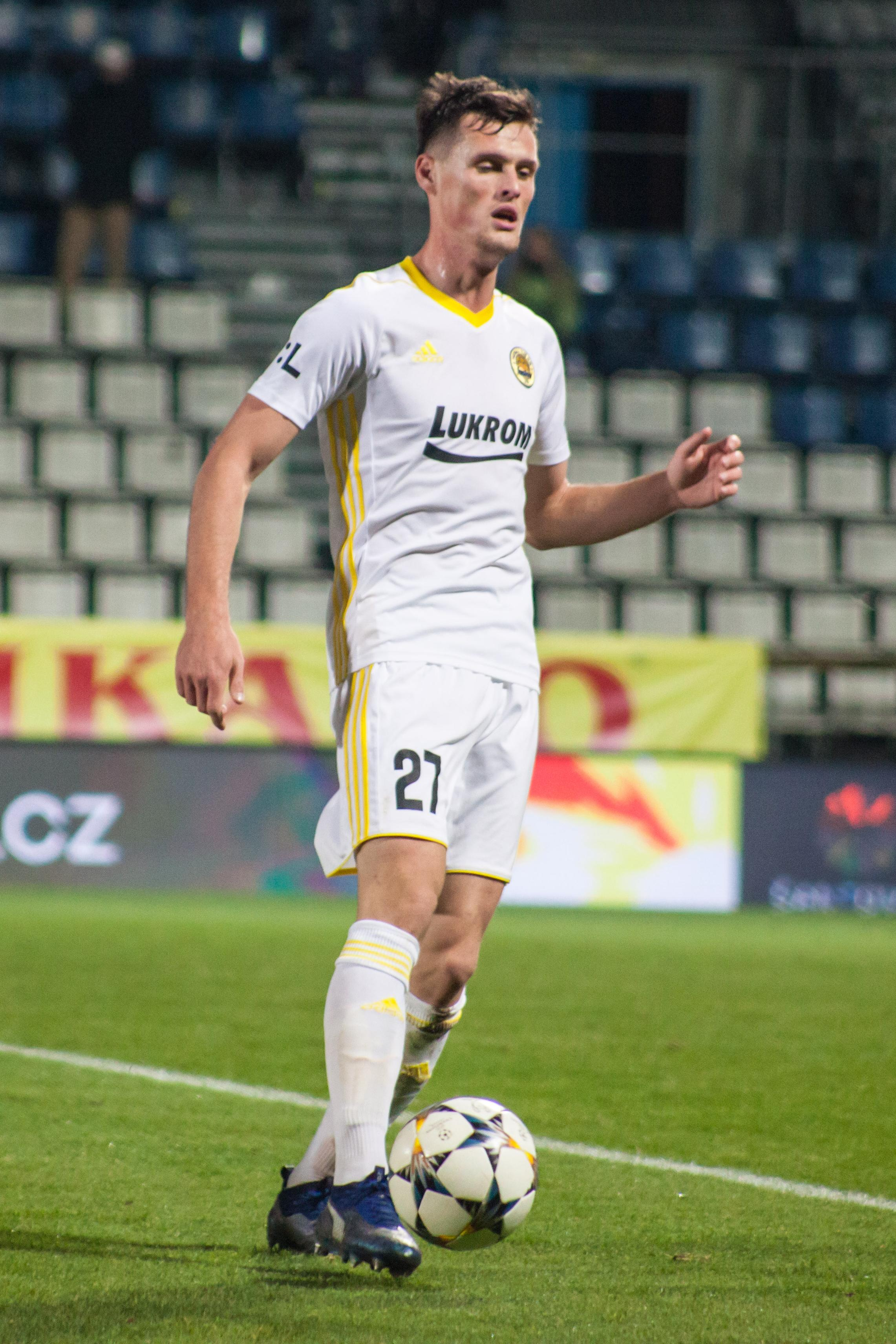 Ondřej Bačo At Czech cup (MOL Cup) match SK Sigma Olomouc-FC Fastav Zlín played on 15 November 2018